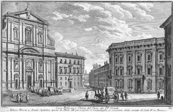 1) Palazzo Petroni; 2) Street leading to Campidoglio.